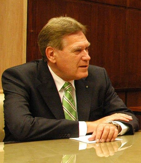 cropped image of German Minister for Economics and Technology Michael Glos.